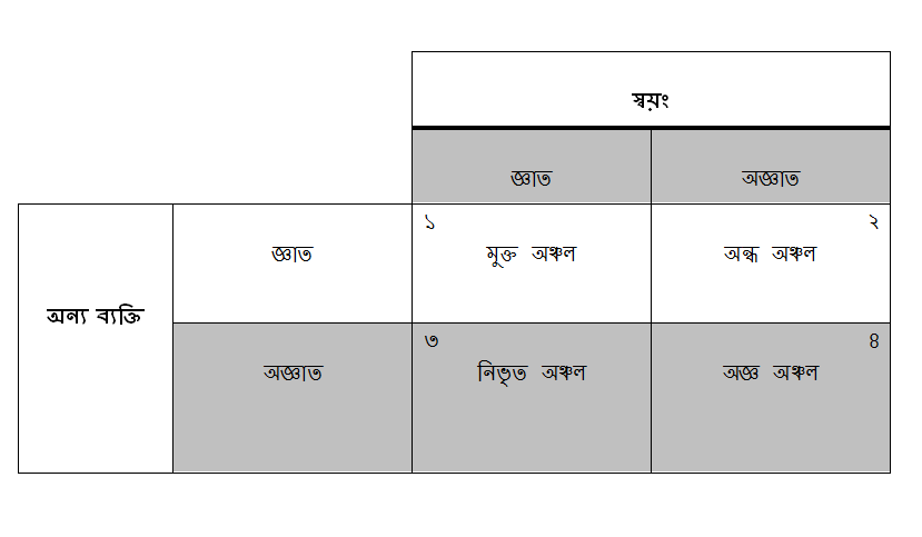 Illustration of Johari Window in Assamese text.